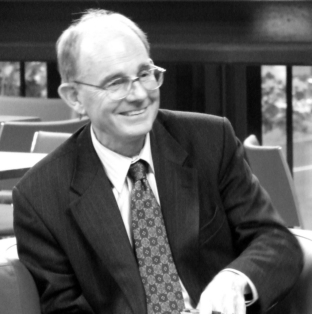 Chris Mullin MP in 2009.